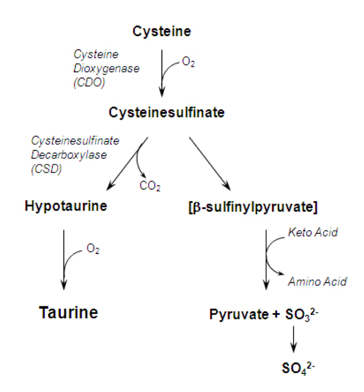 Structure and formation of taurine: This oversimplified diagram shows the main steps in the conversion of L-cysteine to taurine. The enzyme cysteine dioxygenase (CDO) catalyzes the conversion of L-cysteine to cysteine sulfinate, and the oxidation of hypotaurine (2-aminoethane sulfinate) results in taurine. Source: Ripps H, Shen W. Review: taurine: a “very essential” amino acid. Mol. Vis. 2012;18:2673–86.